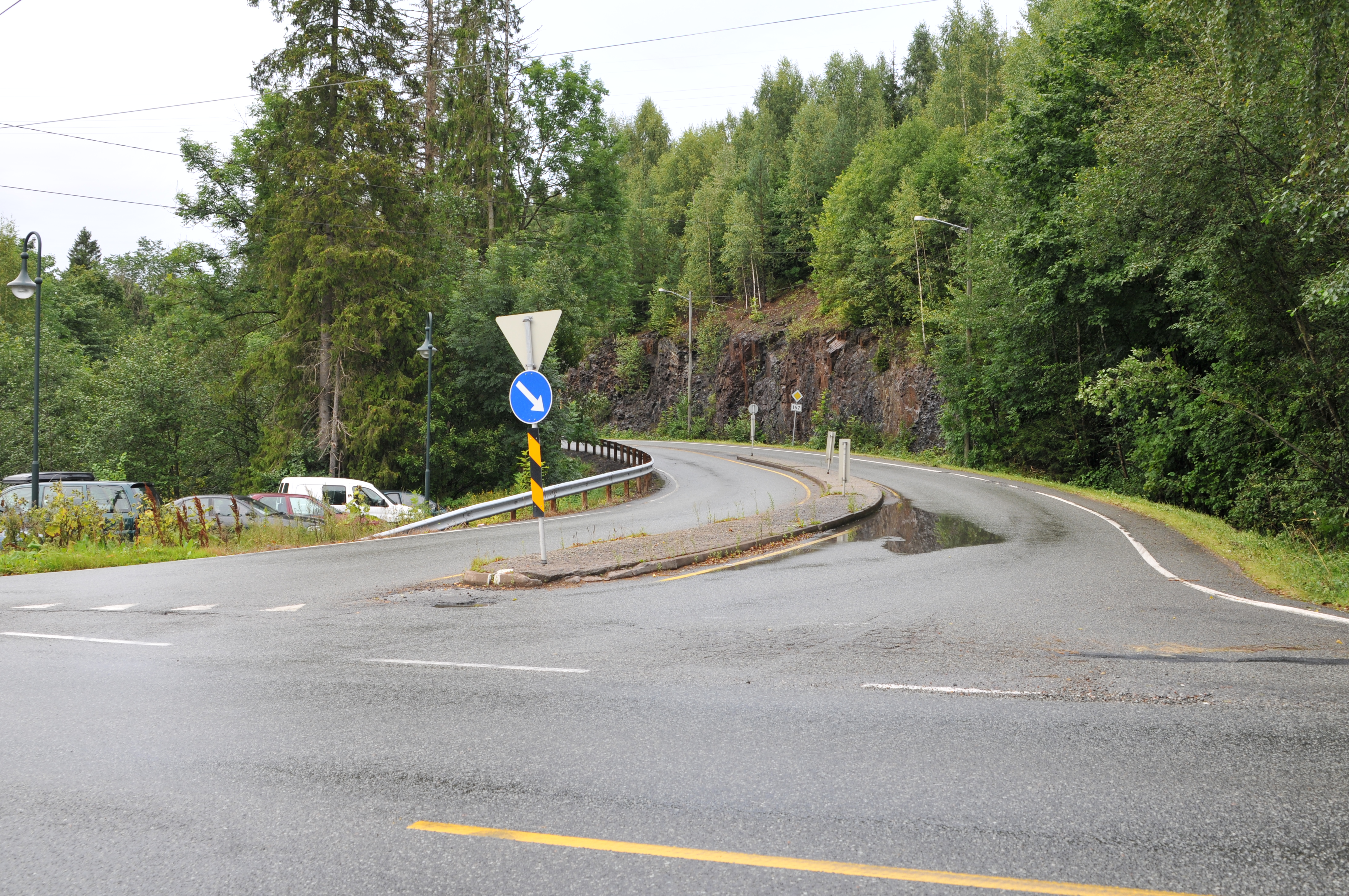 Røykenveien Fv167 from Slemmestadveien Fv165 in Røyken, Buskerud, Norway.